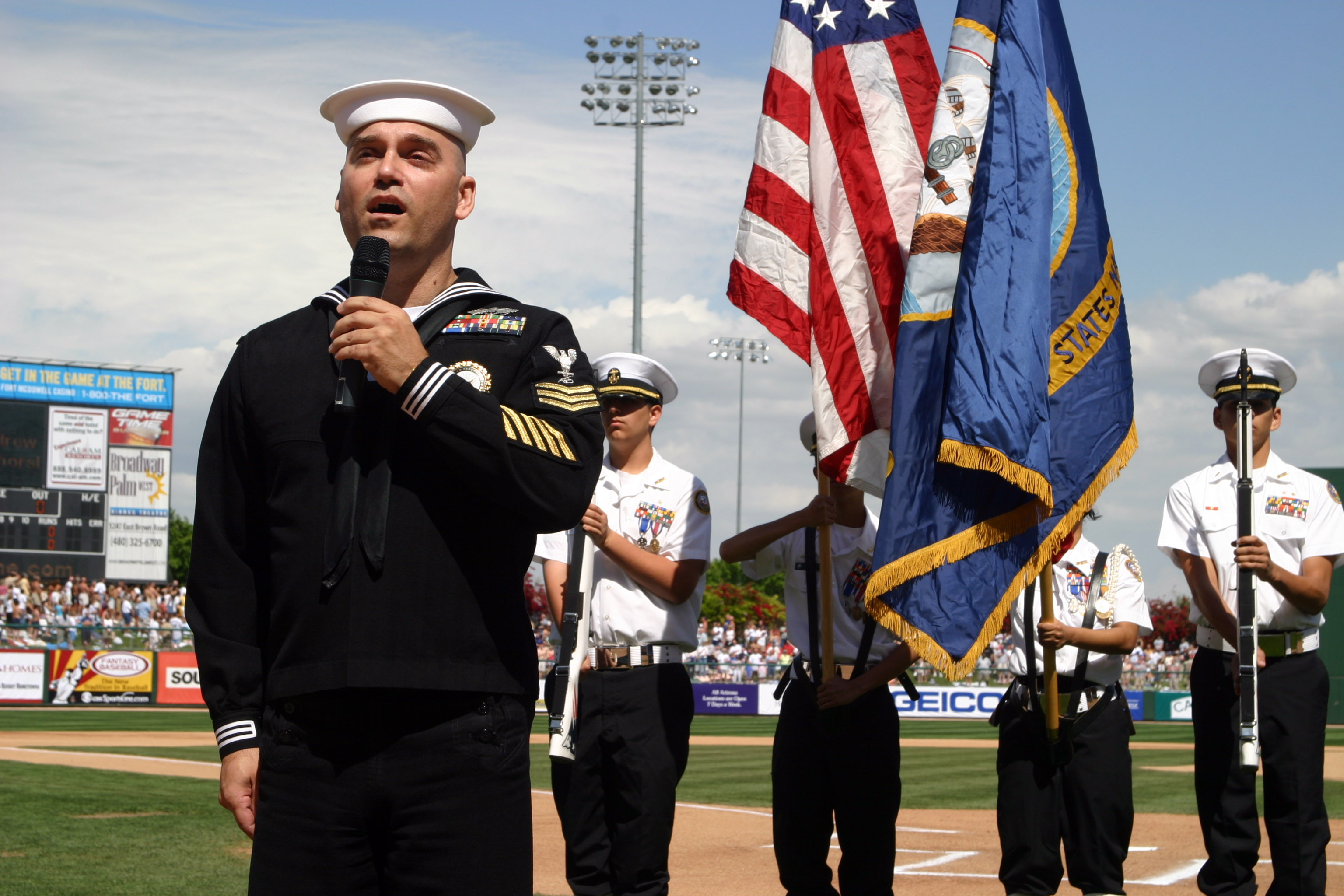 Phoenix, Ariz. (Mar. 14, 2005) – Journalist 1st Class Andrew Scharnhorst assigned to Navy Recruiting District Phoenix, sings “God Bless America,” while a Naval Junior Reserve Officer Training Corps (NJROTC) color guard from Independence High School presents the colors during a Cactus League spring training baseball game between the Chicago White Sox and the Chicago Cubs at Ho Ho Kam Stadium. The event was part of Phoenix’s Navy Week. 20 such weeks are planned this year in cities throughout the U.S., arranged by the Navy Office of Community Outreach (NAVCO). NAVCO is a new unit tasked with enhancing the Navy’s brand image in areas with limited exposure to the Navy. U.S. navy photo by Photographer’s Mate 1st Class Gary Ward (RELEASED)